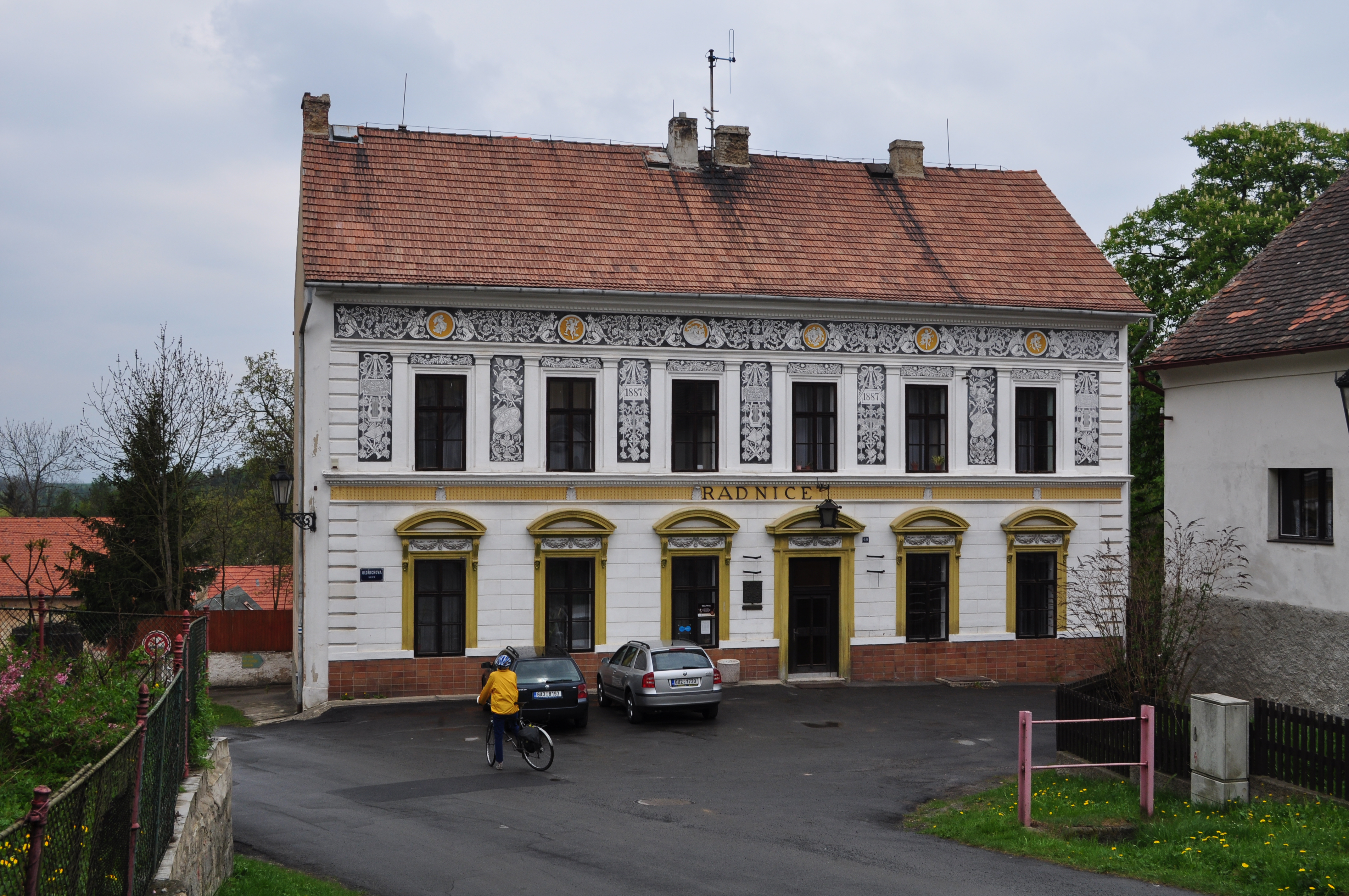 Peruc - City Hall